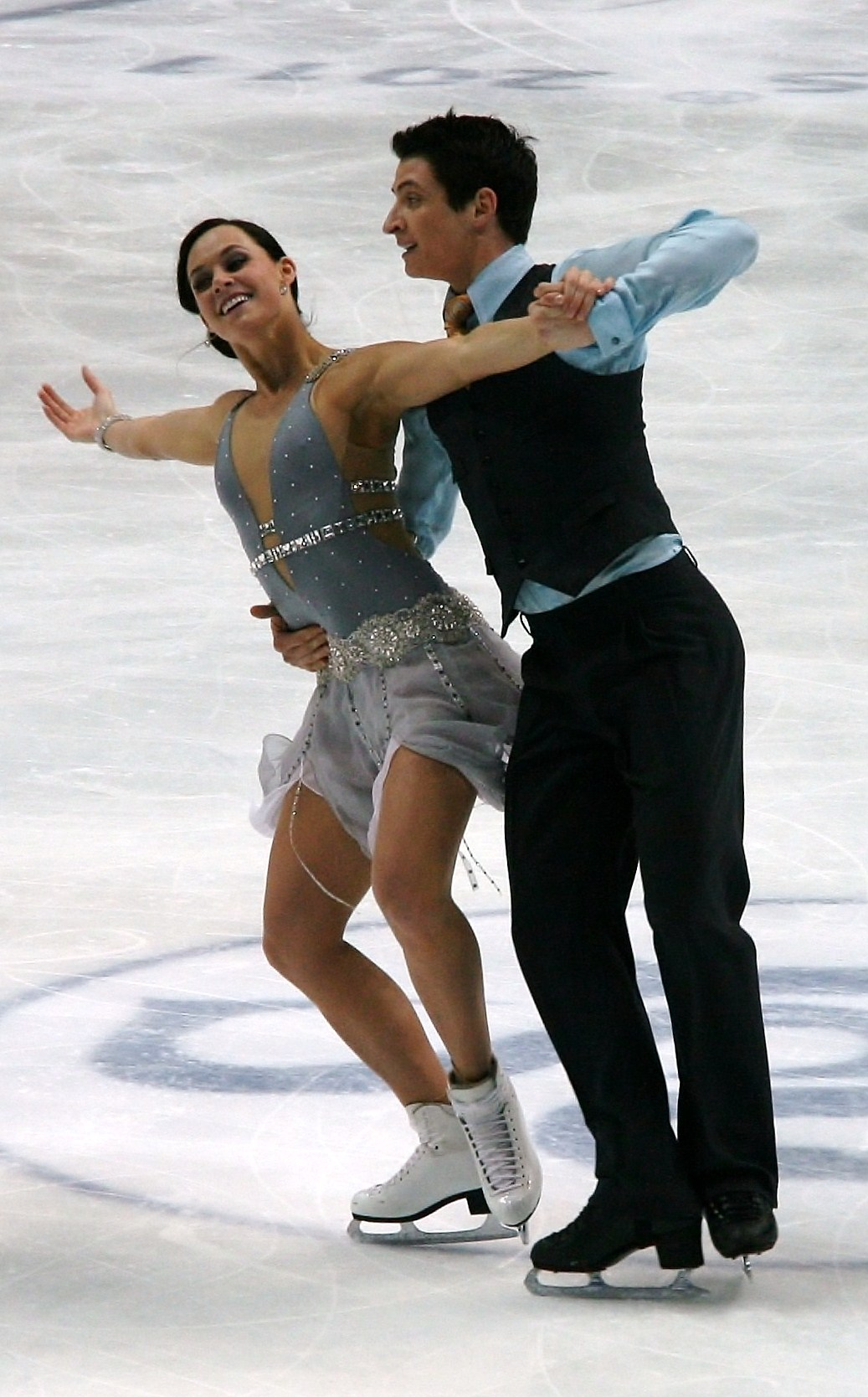 Tessa Virtue and Scott Moir at the 2011 World Figure Skating Championships